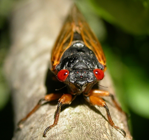 Images of Magicicada septendecim, 17-year-periodical cicada, 17-Jahr-Zikade, Danville, Illinois, USA